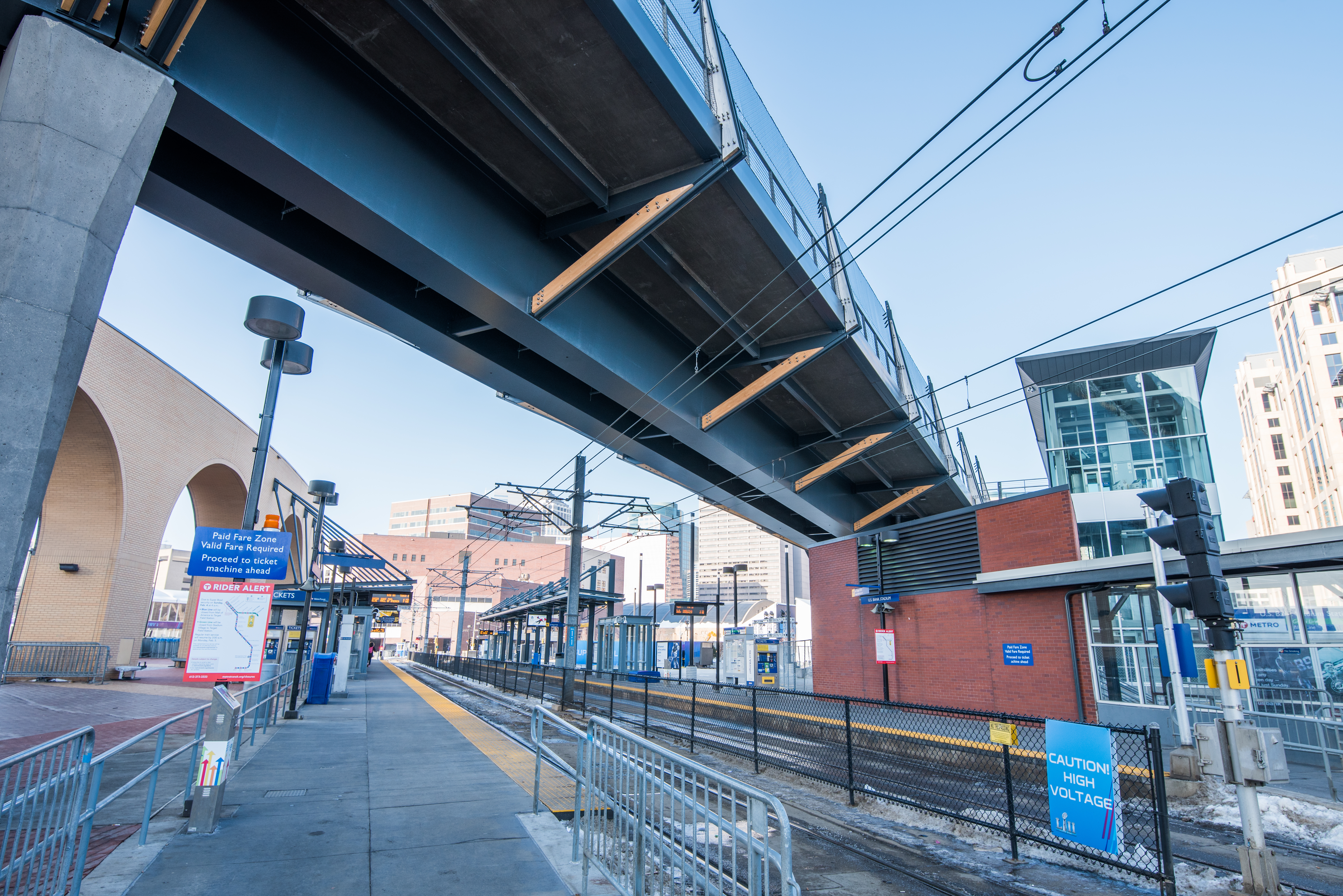 Downtown Minneapolis in the week leading up to Super Bowl LII.